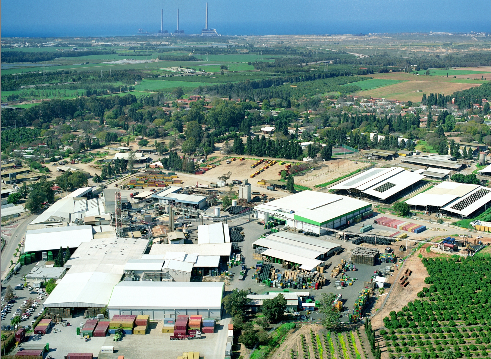 Gan-Shmuel zb4- 7, Geography of Israel